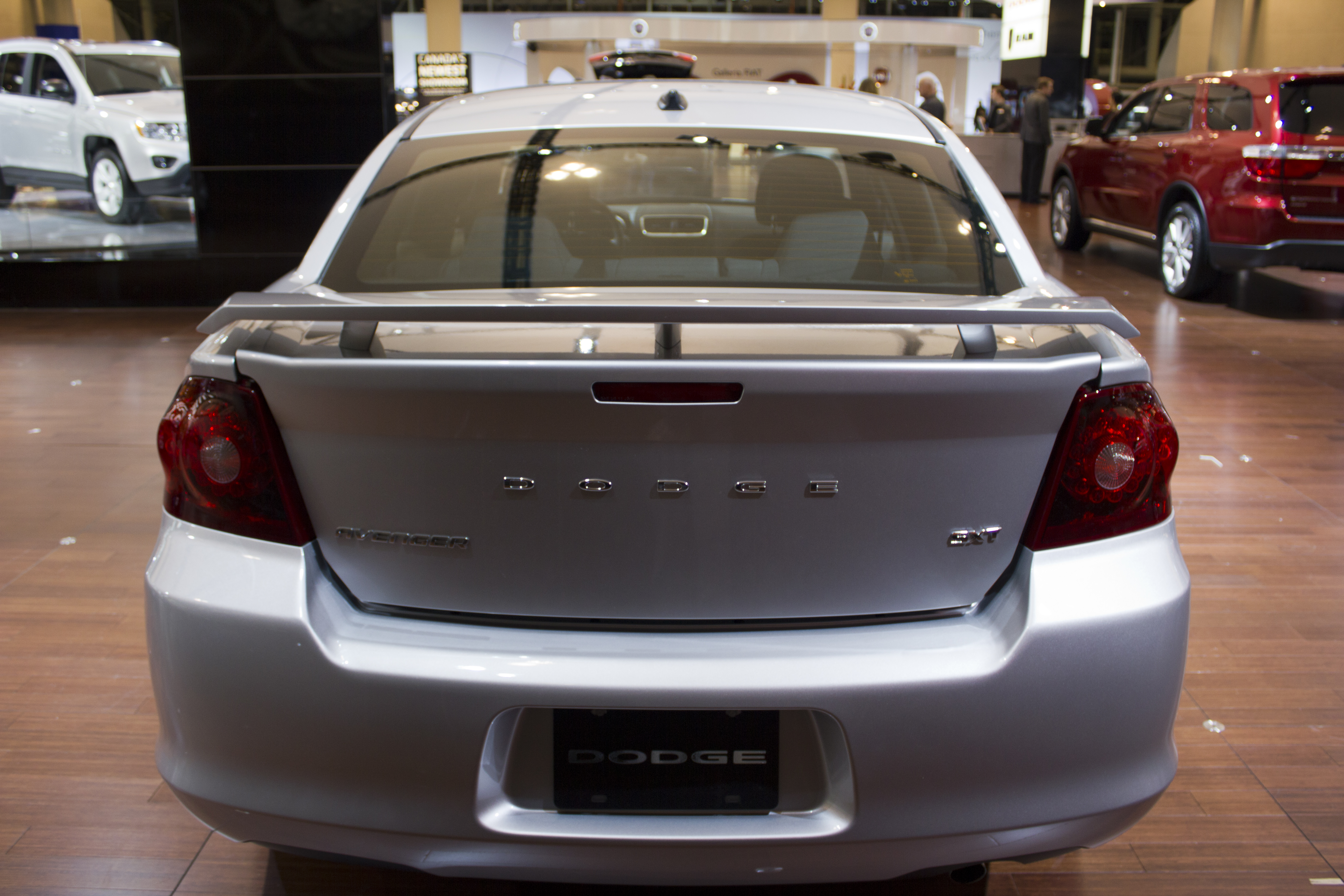 Taken at the 2011 Canadian International Auto Show